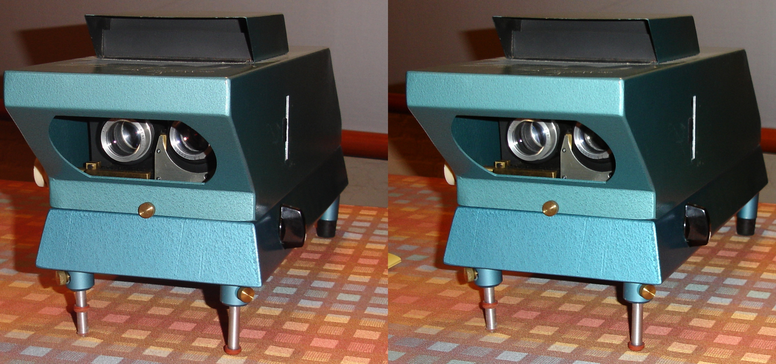 Stereoprojector